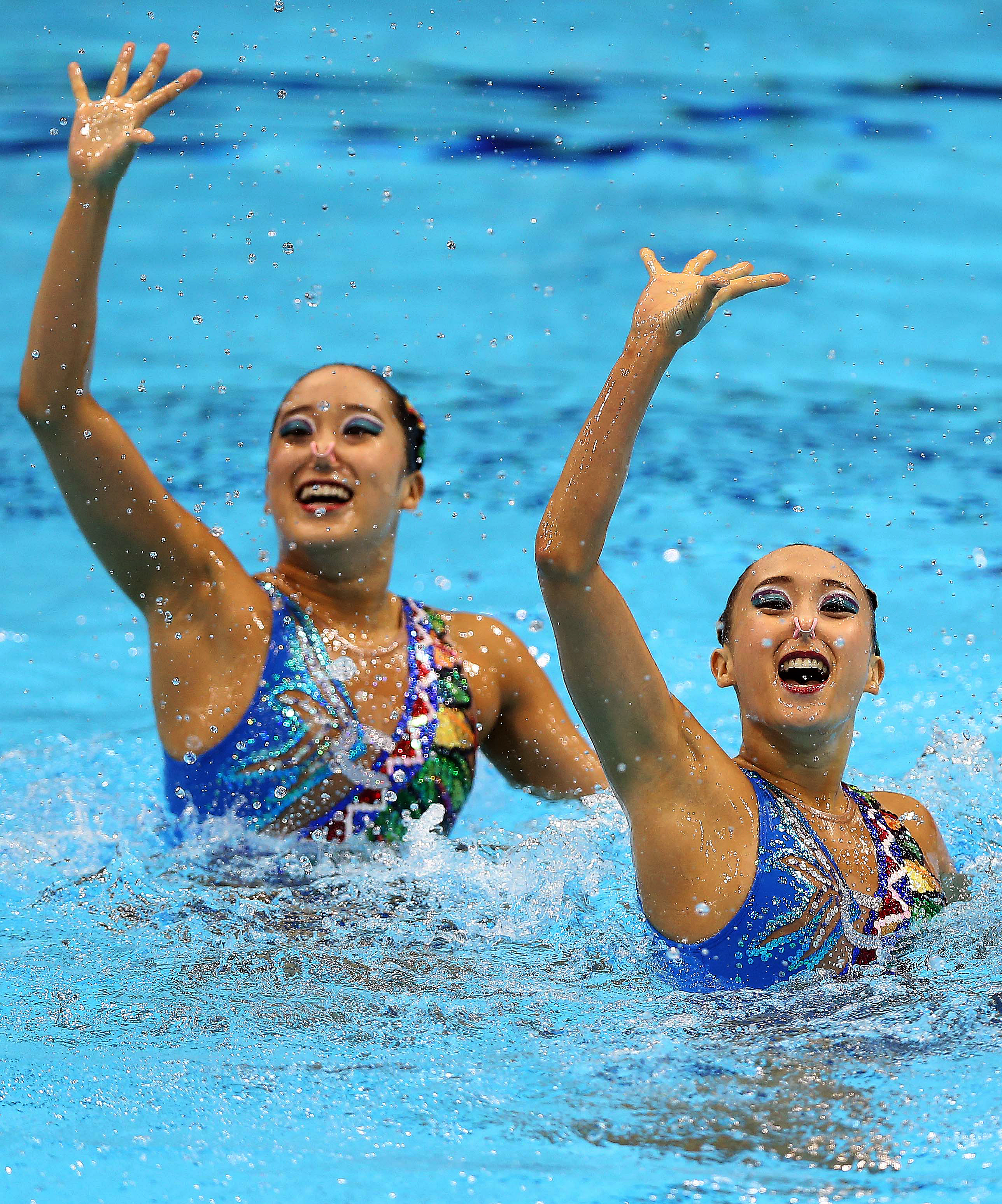 2012 London Olympic Games Korea Synchronised Swimming Team, Park Hyunha and Park Hyunsun. 2012.08.06. Photo by Korean Olympic Committee Ministry of Culture, Sports and Tourism Korean Culture and Information Service 2012 런던 올림픽 여자 싱크로나이즈 스위밍 박현선-박현아 자매 사진제공 - 대한체육회 문화체육관광부 해외문화홍보원